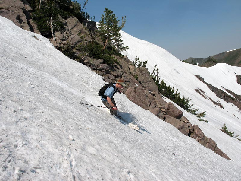 Skiing at Snowbasin in June of 2005. Photographer: Scott Appleby. Skier: Kevin Brown.